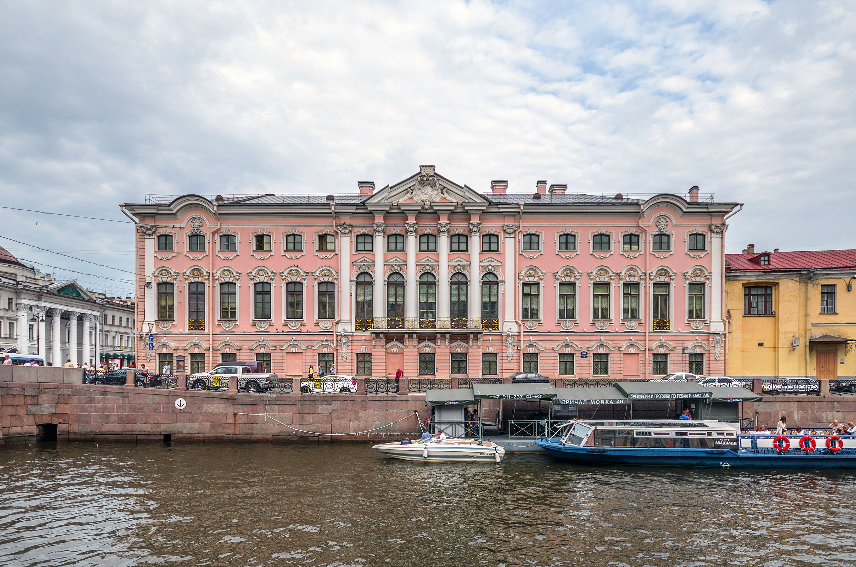 Stroganovsky Palace in Saint Petersburg, as seen from Moyka Embankment